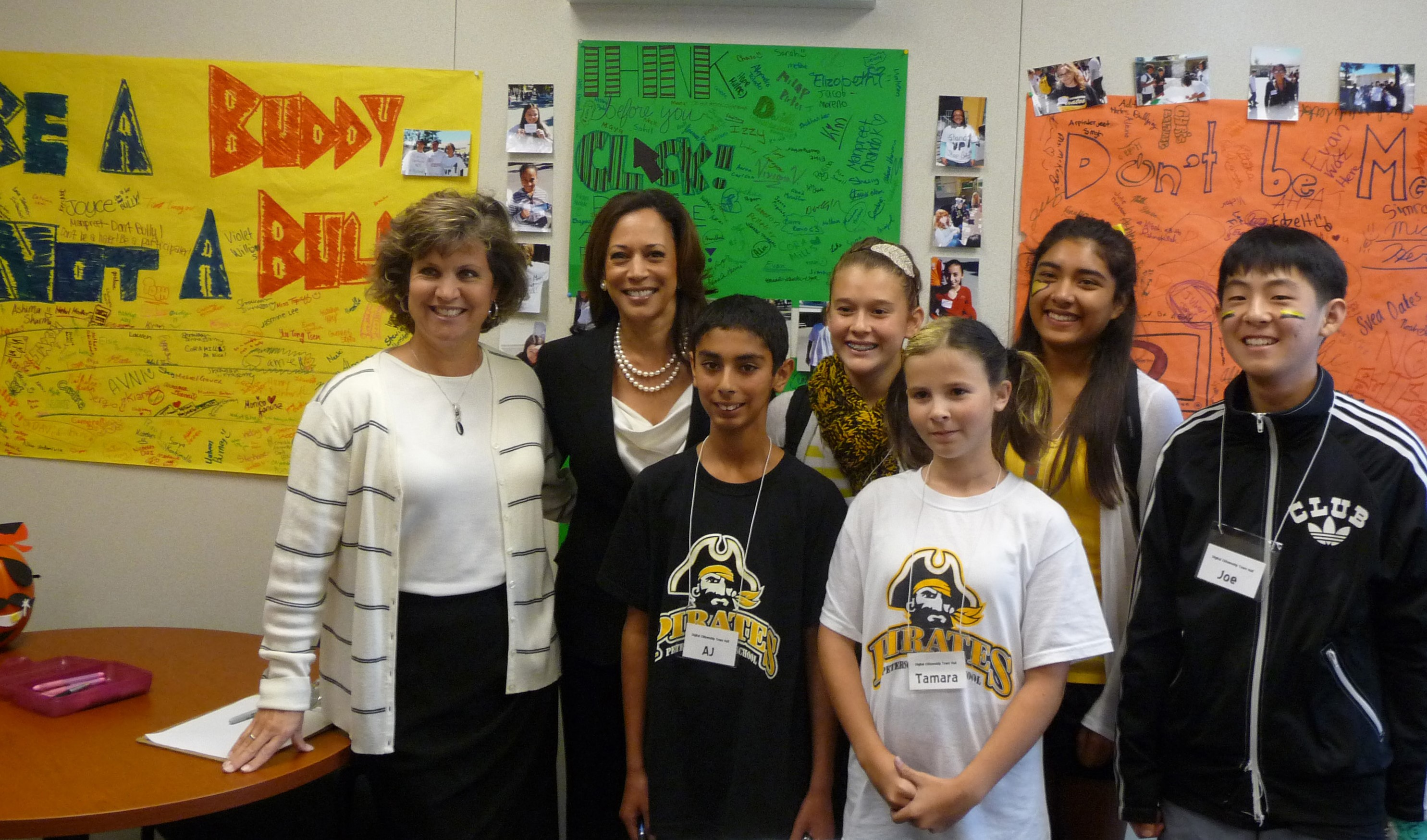 Attorney General Kamala Harris visits Peterson Middle School to meet with students, and a Digital Literacy Team made up of administrators, teachers and police officers, to discuss online safety, digital citizenship, and cyberbullying. Sunnyvale - October 28, 2011